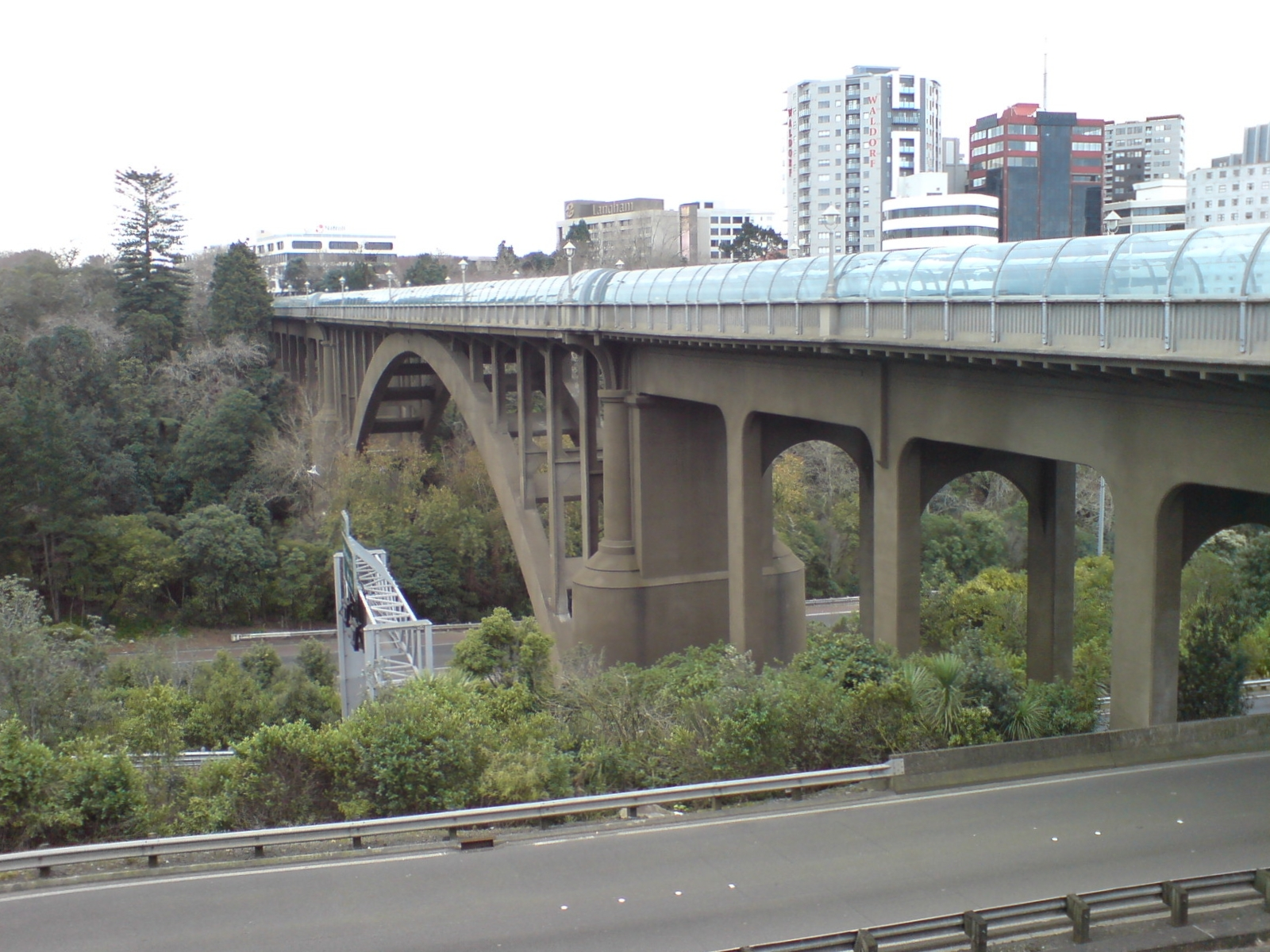 Grafton Bridge in Auckland, New Zealand. Looking west along the southern side.